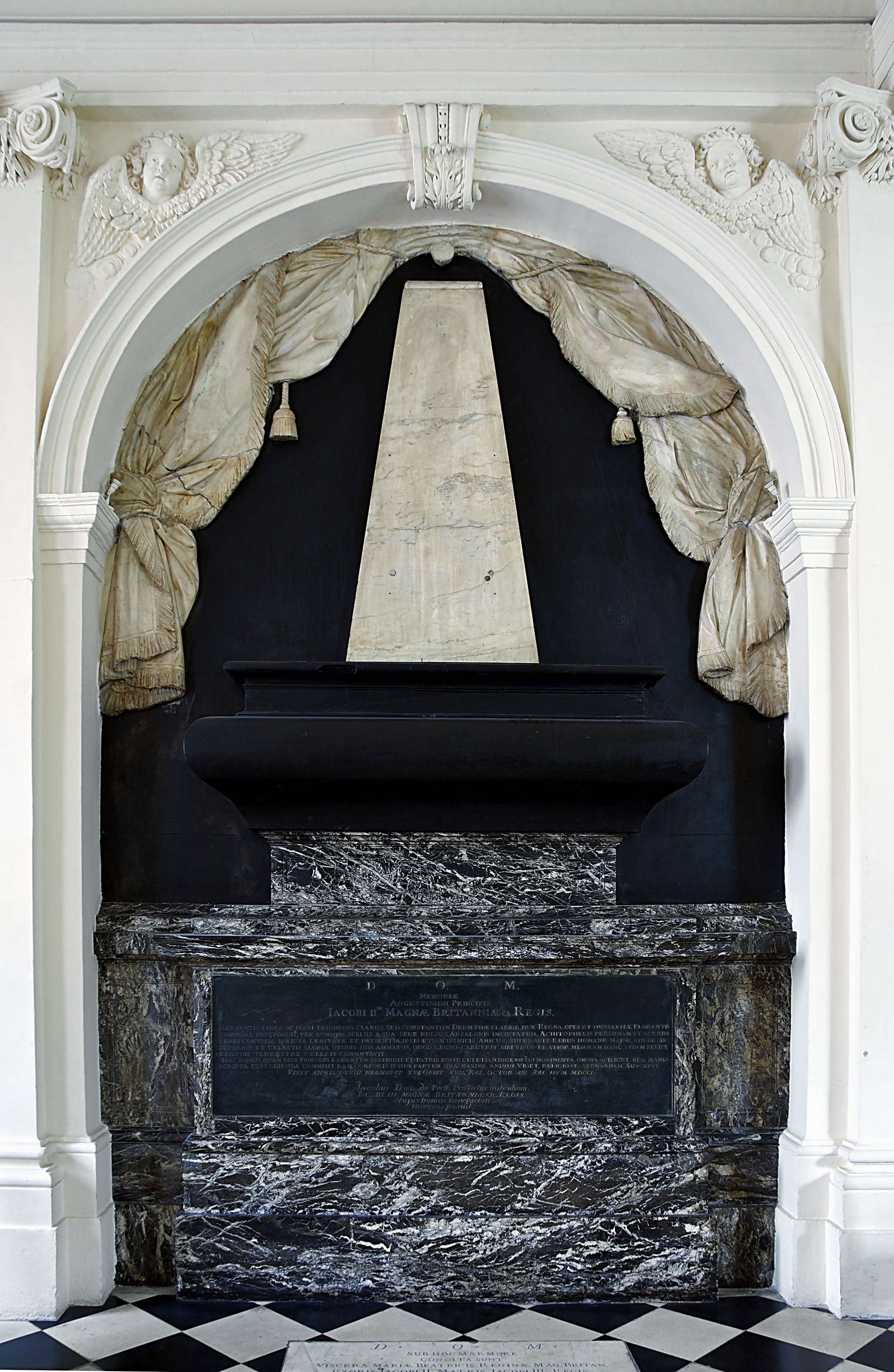 Repository for the brain of James II & VII of Great Britain and Ireland, exiled by the Glorious Revolution in France where he died in 1701. This monument is in the chapel of the former "Collège des Ecossais" (Scots College), now a school in the 5th arrondissement of Paris. It was built by order of James Drummond, Earl of Perth.